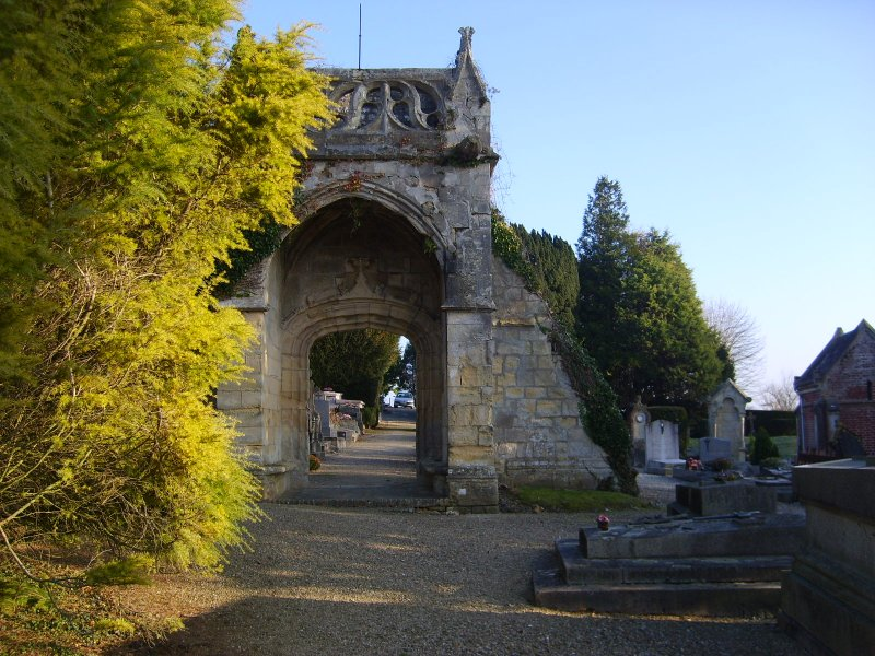 Old church of Saint Aubin, Beuzeval, Houlgate, new year 2009.